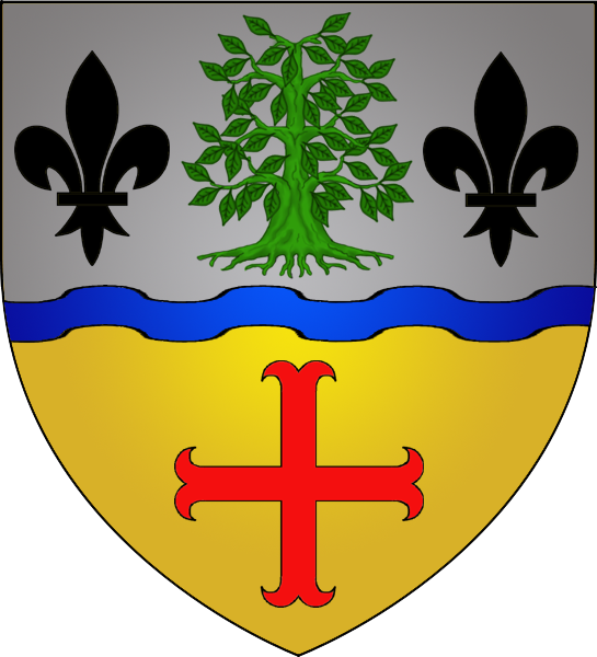 Coat of arms of the municipality of Schieren, Luxembourg